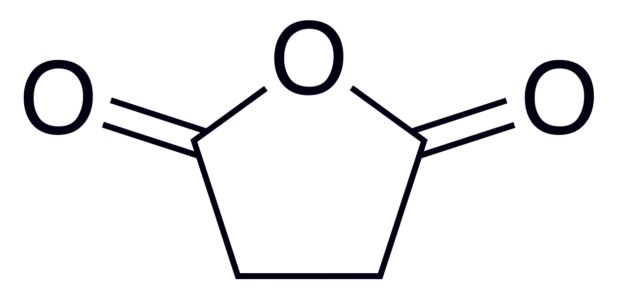 Skeletal structure of succinic anhydride